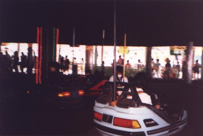 Dinosaur display at Lai Chi Kok Amusement Park (荔園遊樂場)